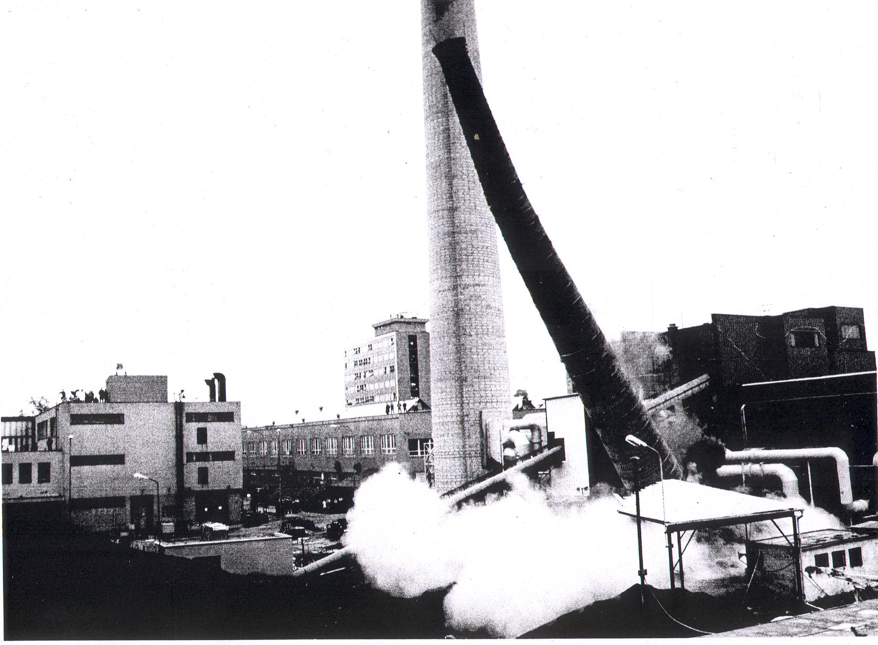 Blast of chimney